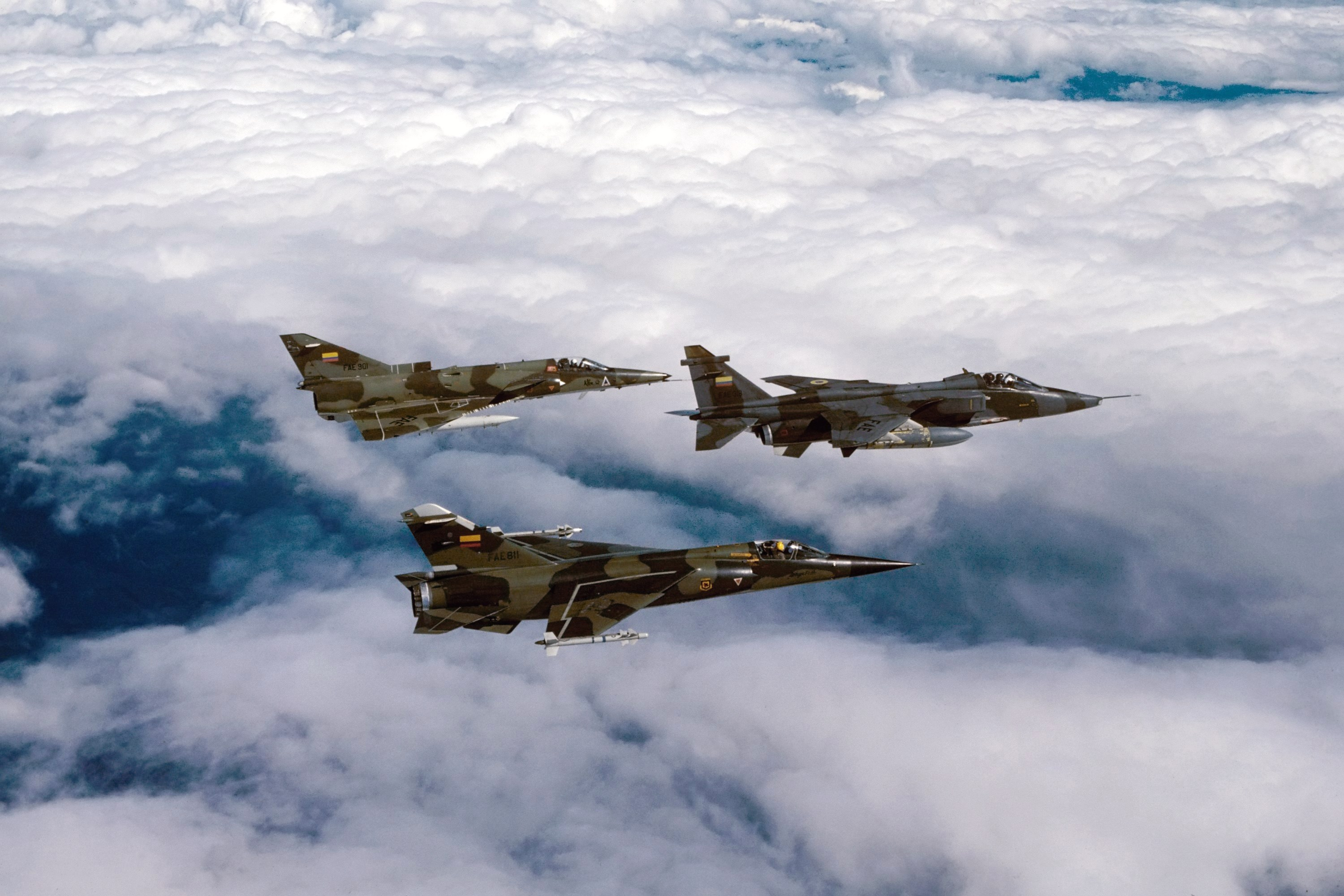 An air-to-air right side view of three Ecuadoran air force aircraft in formation during the joint US/Ecuadoran Exercise BLUE HORIZON '86. A Kfir, top, and a Mirage F.1, bottom, are following a Jaguar. DF-ST-87-12673